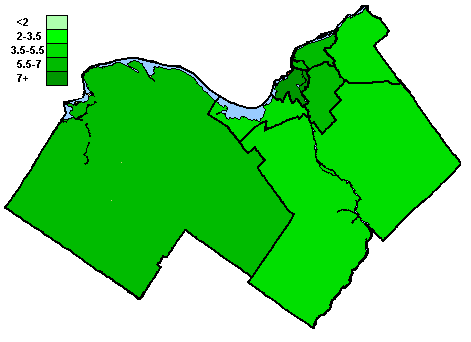 Map made by uploader (User:Earl Andrew); see [1] (question about source) and [2] (response).